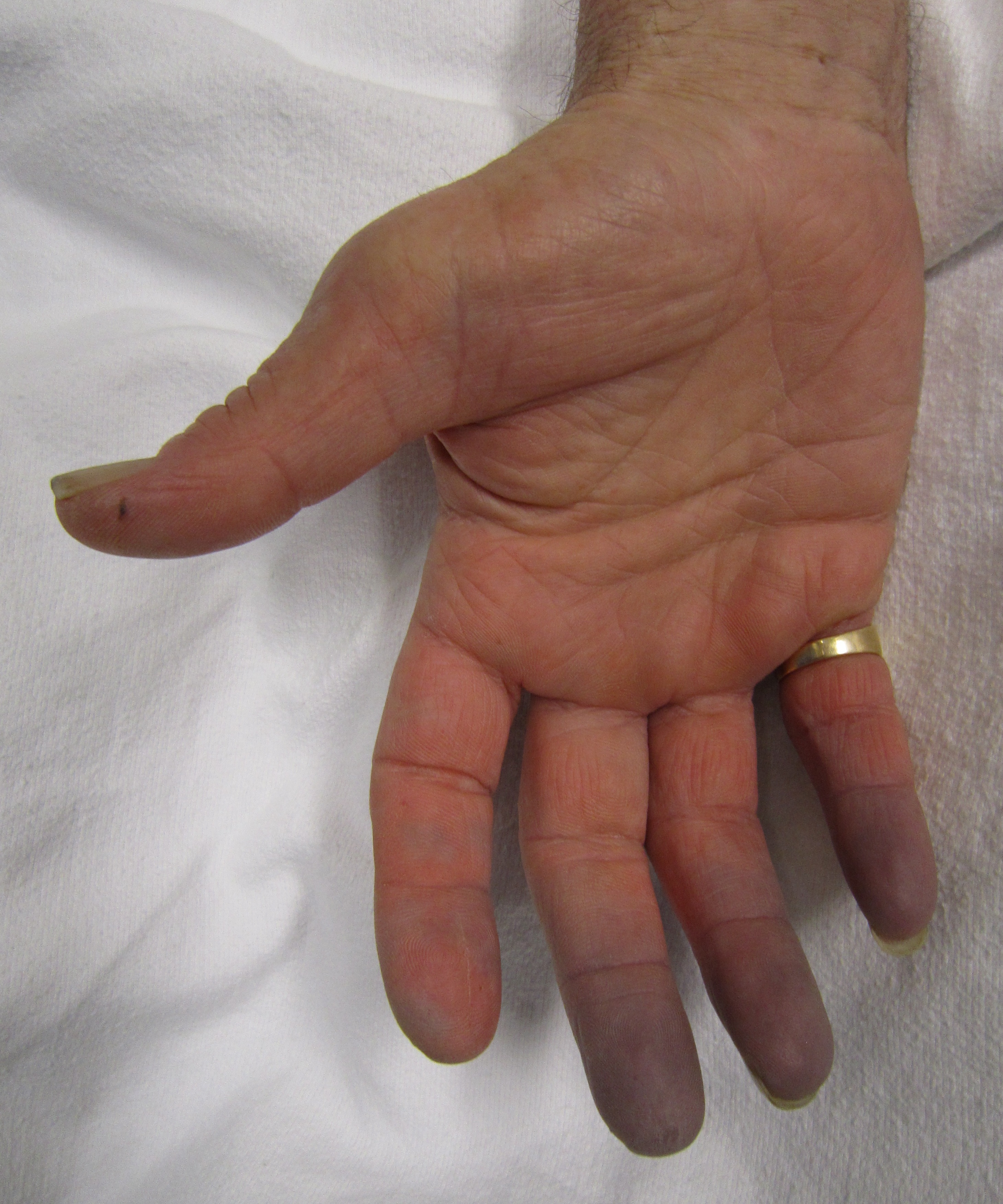 Cynosis of the finger tips